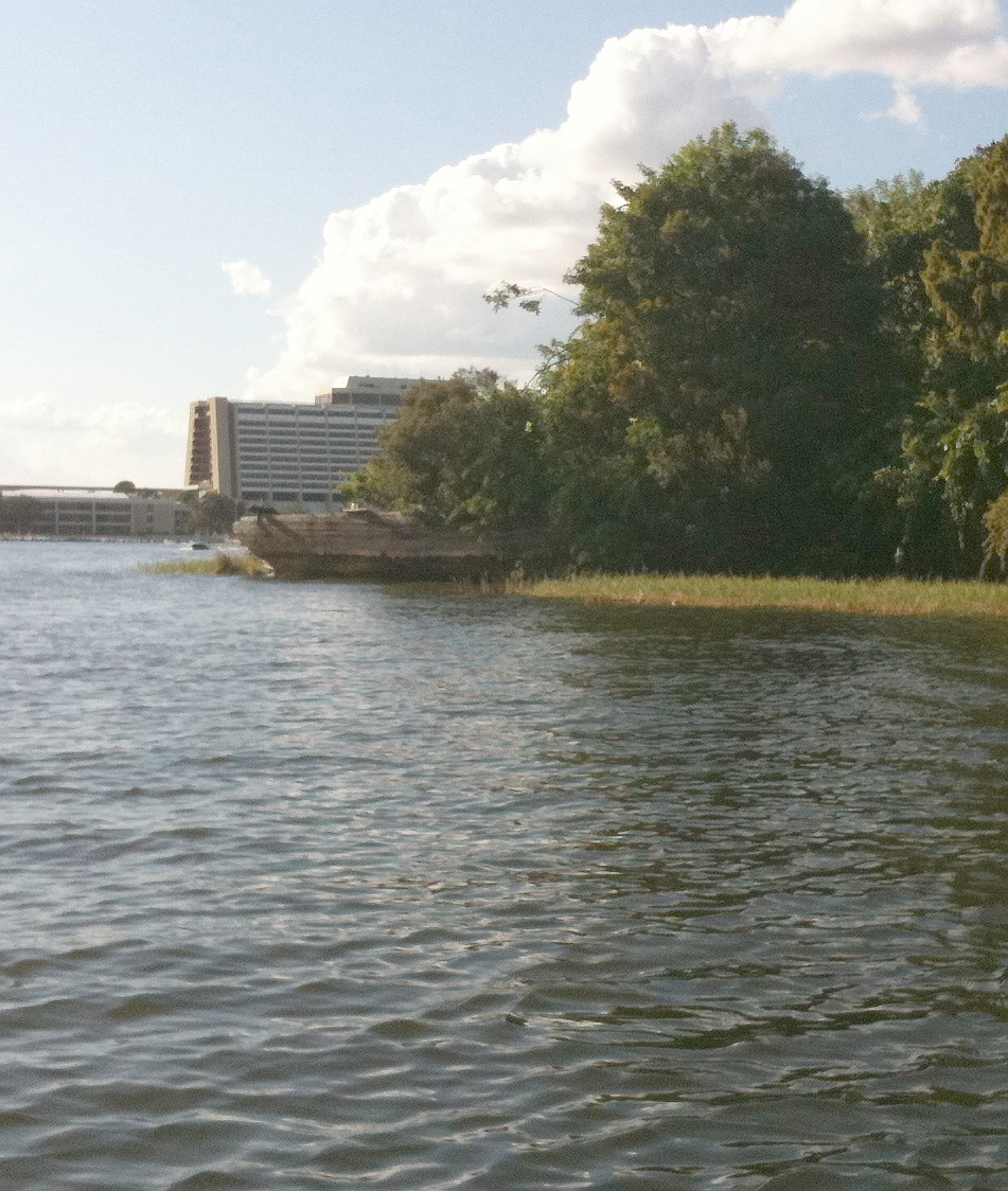 Photo of "The Wreck of the Walrus" a shipwreck on the southern coast of Walt Disney World's Discovery Island.